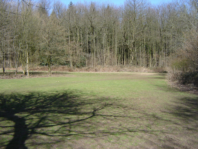 Picnic Area at Chawton Park Woods. There is a car park here a short way from the A31. It provides good access to the walks in the woods. Unfortunately the picnic benches seem to have vanished!